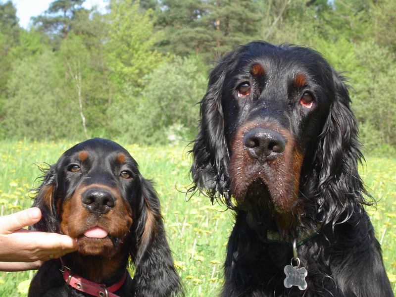 A young pup (15 weeks) and much older Gordon (22 years) sitting side by side in a field.